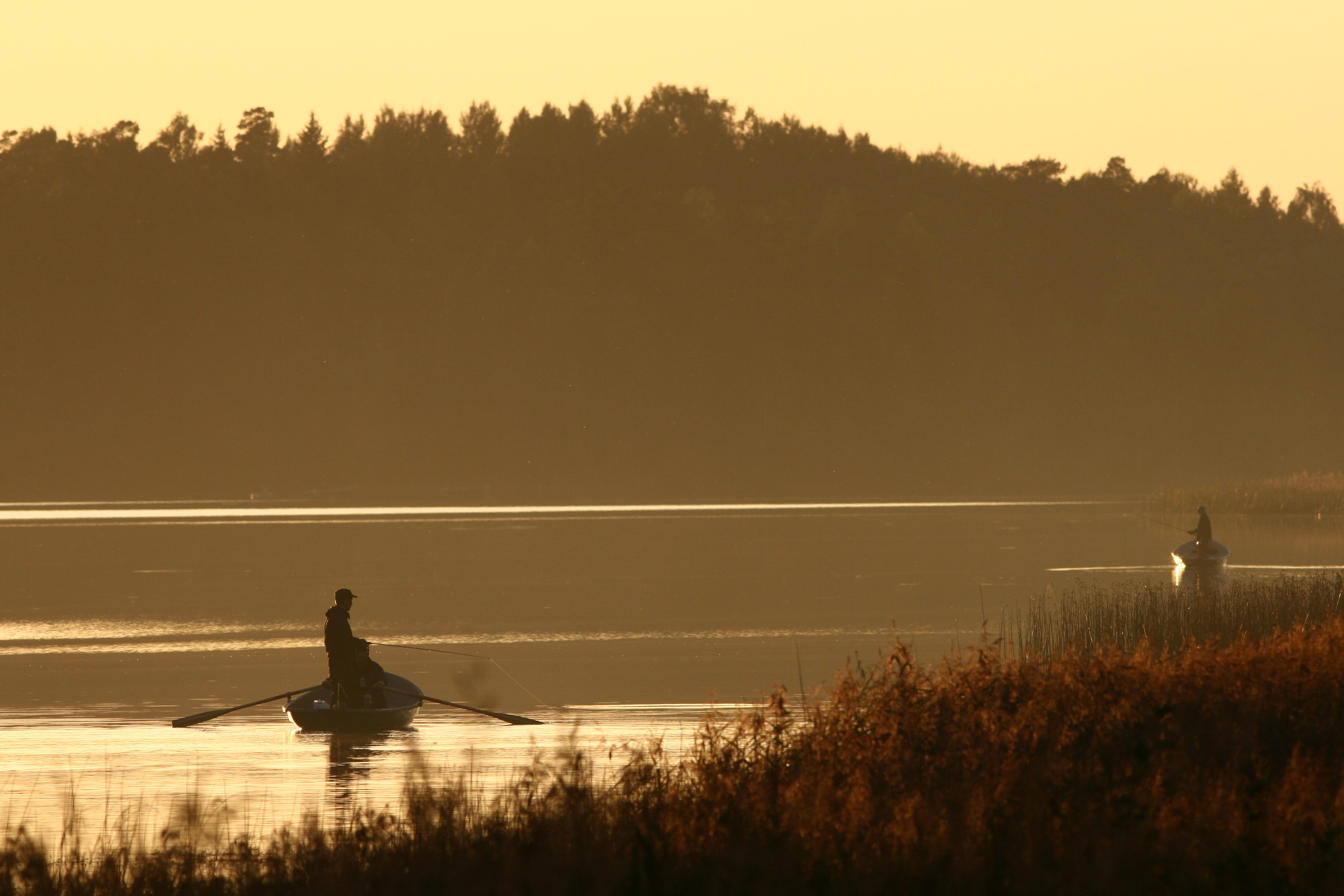 Two fishermen at Paunküla water reservoir in Kose Parish, Harju County, Estonia.